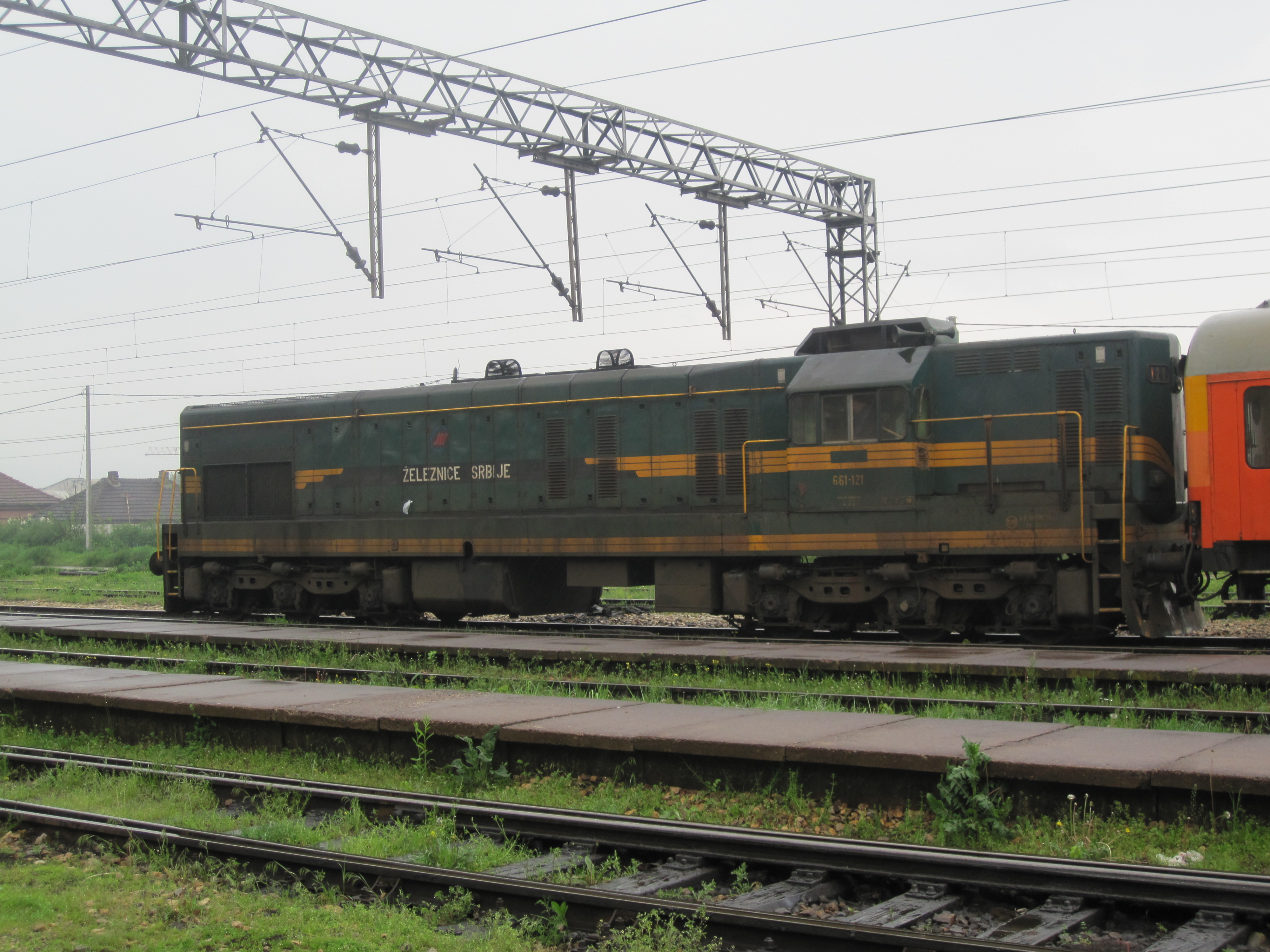 661.121 having arrived at Lapovo working the 2-coach train from Bar (in Montenegro) through to Niš.